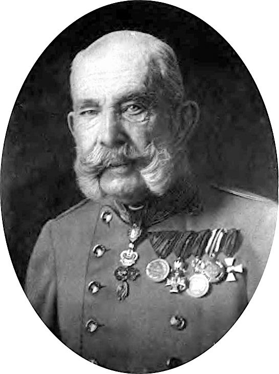 Austrohungarian emperor Francis Joseph is his later years.